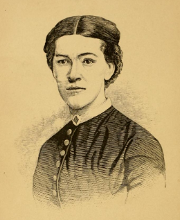 Isabella Thoburn